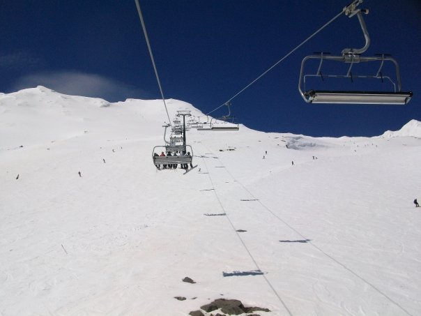 high noon express chair november 09